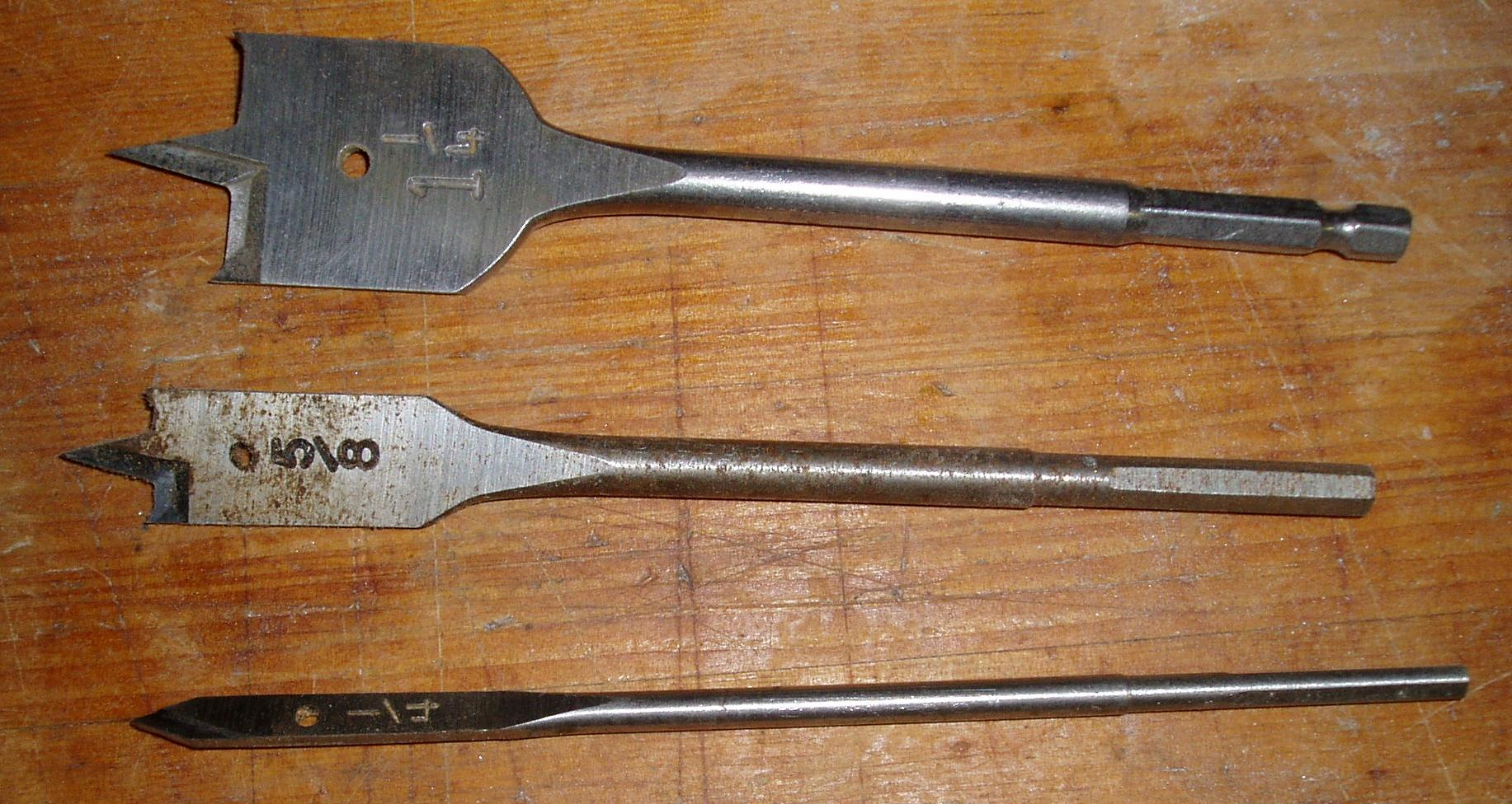 Picture of spade bits taken 30 August, 2005 by Luigi Zanasi (myself) on my workbench using a Olympus digital camera.